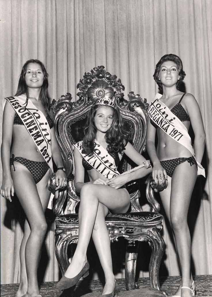 miss italia 1971